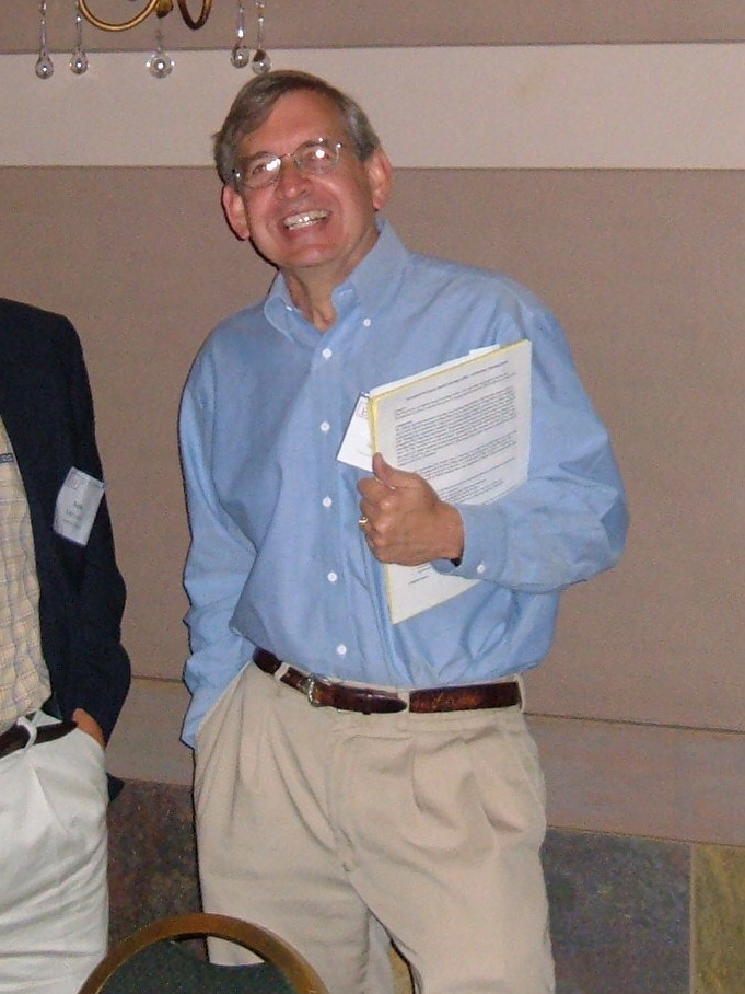 Michael P. Starbird, Professor of Mathematics and University Distinguished Teaching Professor at The University of Texas at Austin. Photographed at the Legacy of R. L. Moore conference in Austin, Texas, July 2008